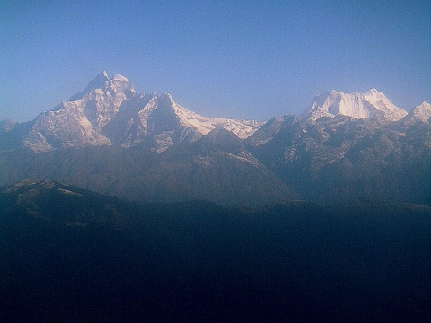 Gauri Sankar (left) and Melungtse (right) seen from a plane during a flight over Nepal.